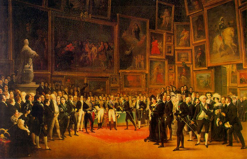 Charles X Distributing Awards to Artists Exhibiting at the Salon of 1824 at the Louvre, 1827, Musée du Louvre, Paris.